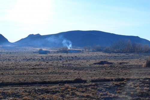 Foto El Caín por la mañana temprano